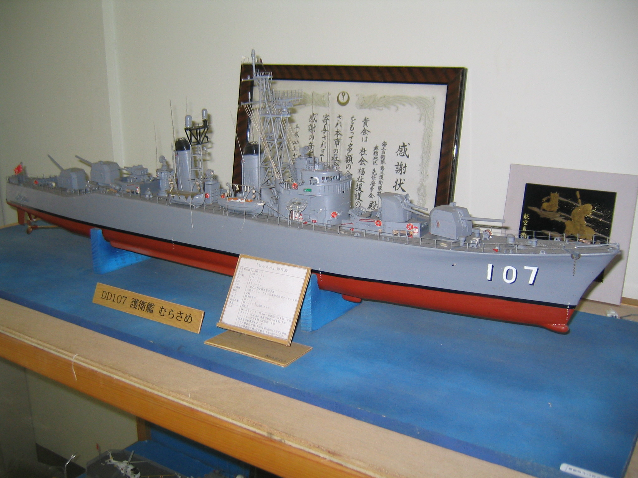 Scale model of DD-107 Murasame (The first generation) at the Maizuru Naval Base